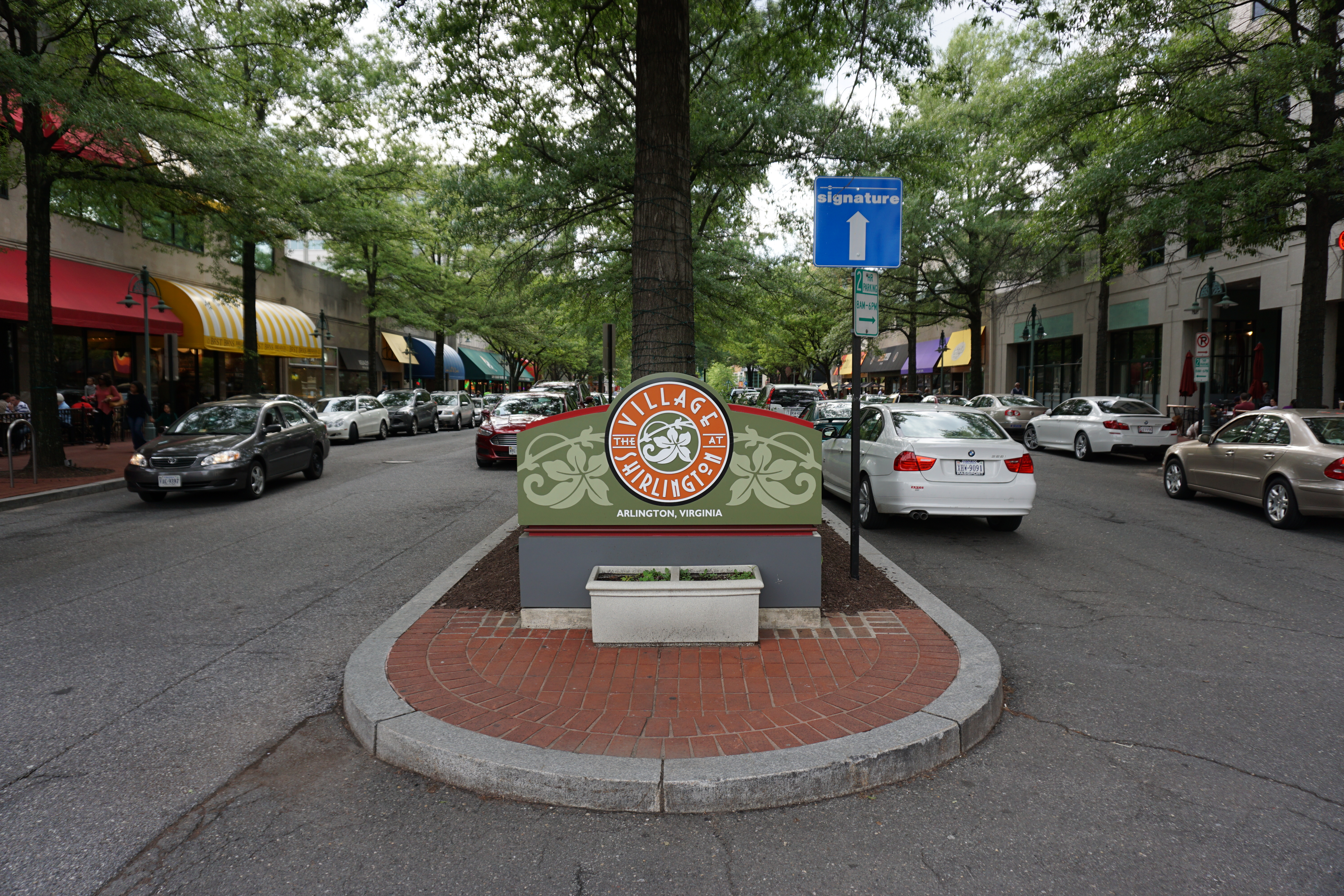 A sign for The Village at Shirlington, viewed while looking west along Campbell Avenue at its intersection with South Quincy Street in Arlington, Virginia.